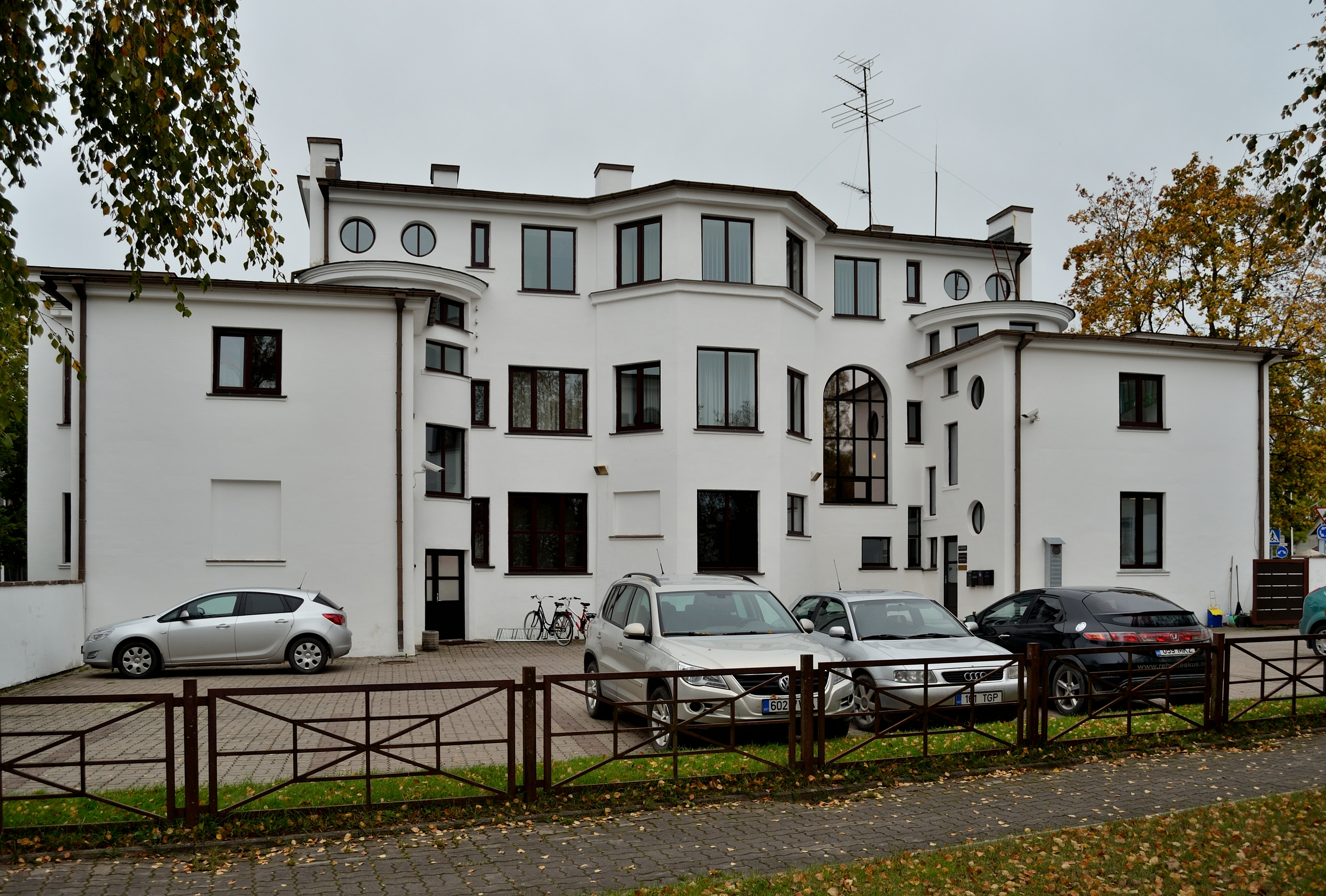 Rapla, bank building Tallinna mnt 12